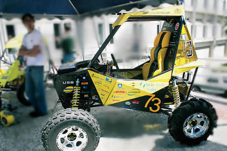 This is a Baja Sae prototipe of Universidad Simón Bólivar, Venezuela